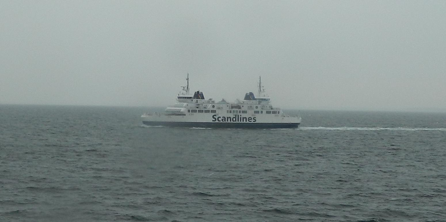 One of Scandlines' three sister ferries. They never turn, so they lack distinct prow and stern. HH Ferry route.